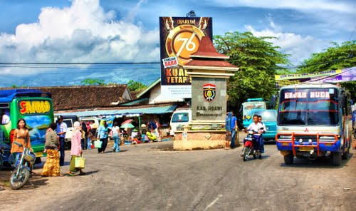 Jogorogo's traditional market